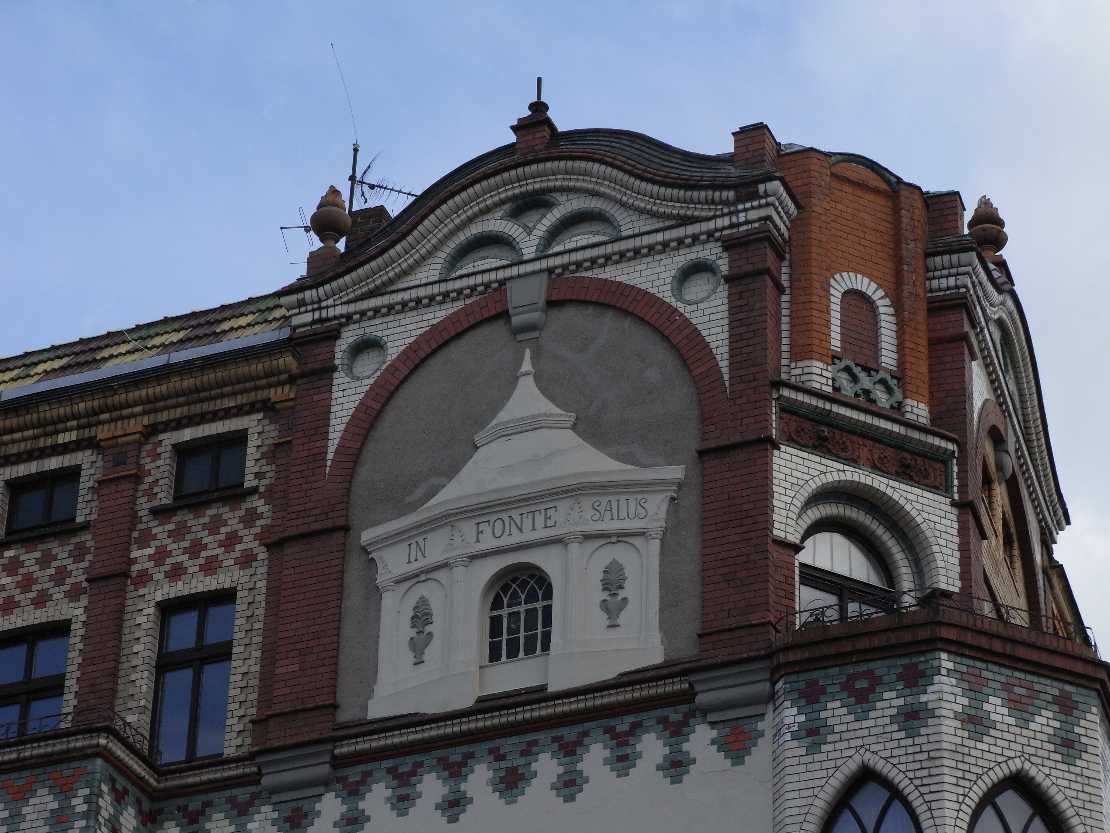 IN FONTE SALUS, inscription on house in Berlin-Gesundbrunnen